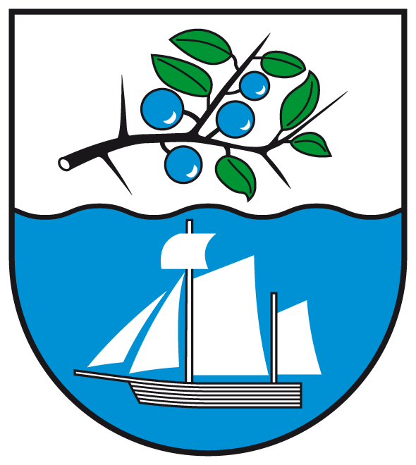 Coat of Arms of Dranske